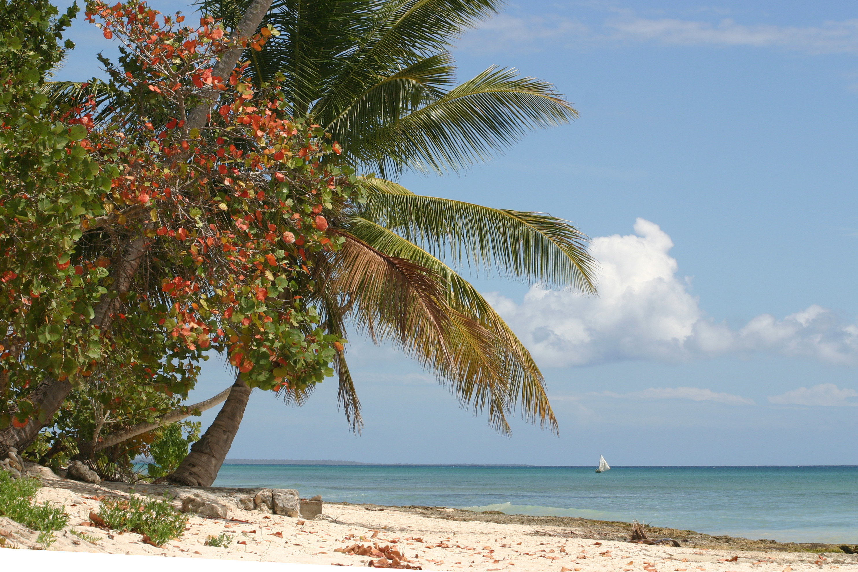 beach, Parque Nacional del Este, Dominican Republic